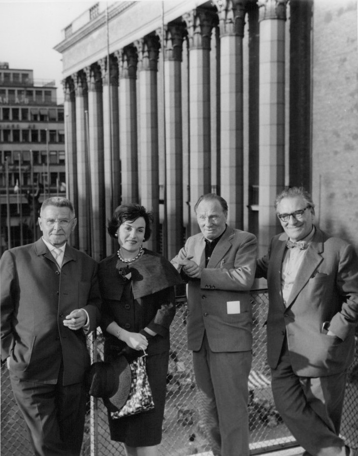 From left: Wolfgang Langhoff, Gisela May, Ernst Busch and Wolfgang Heinz of Deutsches Theater in Berlin in front of Stockholm Concert Hall, where they performed a program consisting of the works of Bertolt Brecht.